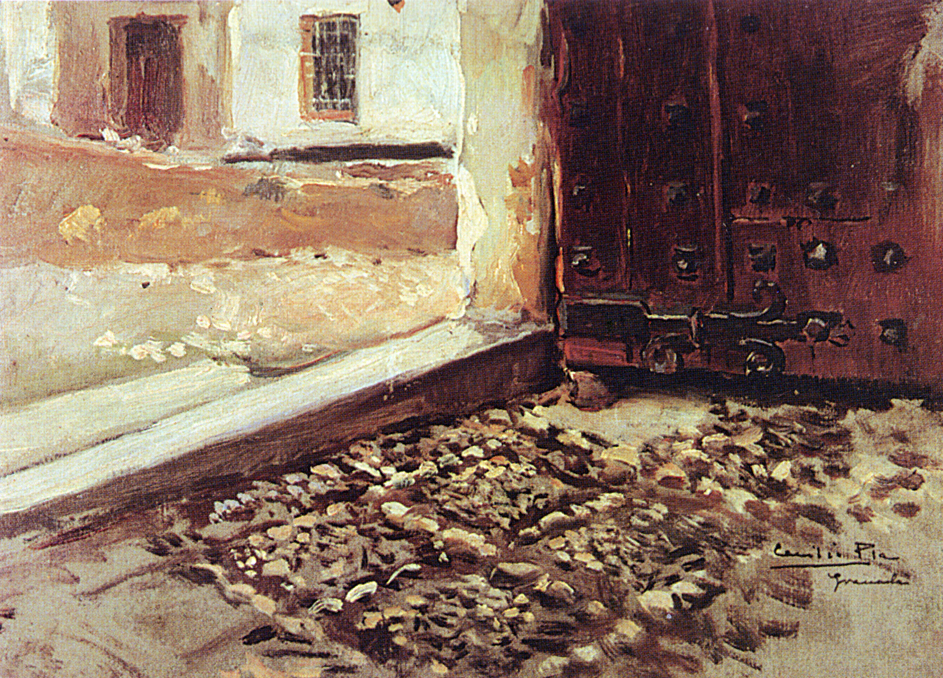 A doorway on Carrera del Darro street